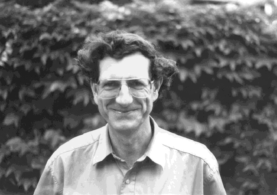 French, Biography, chemical, dendrimers, nanoparticles, organometallic, catalysis